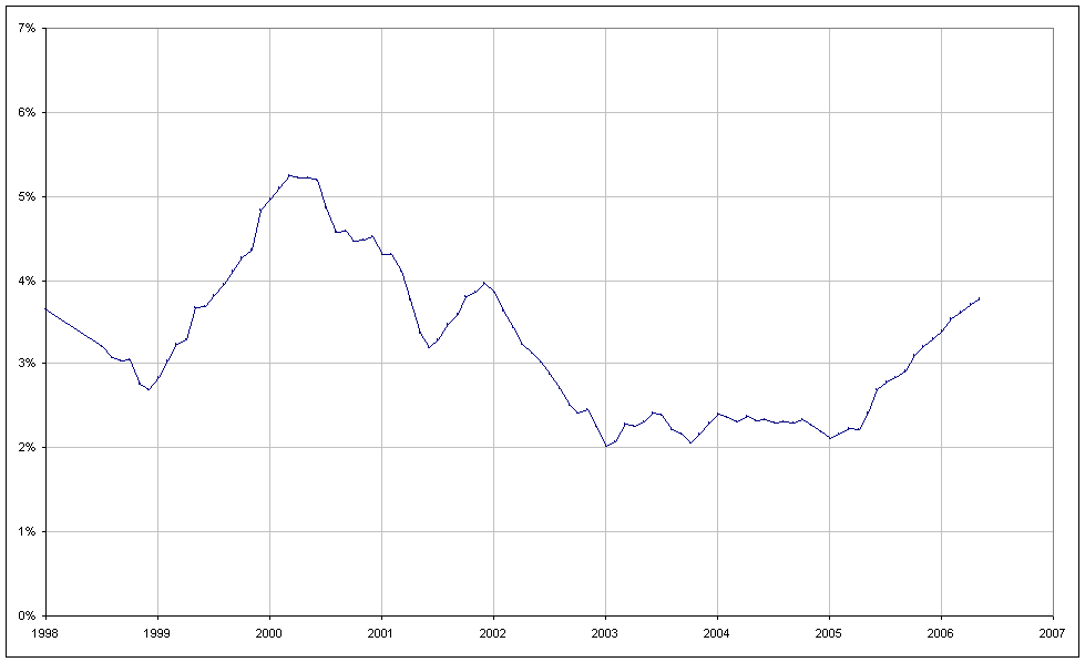 Annual EURIBOR evolution from 1998 to 2007. Author: Euratom Data source: Central European Bank